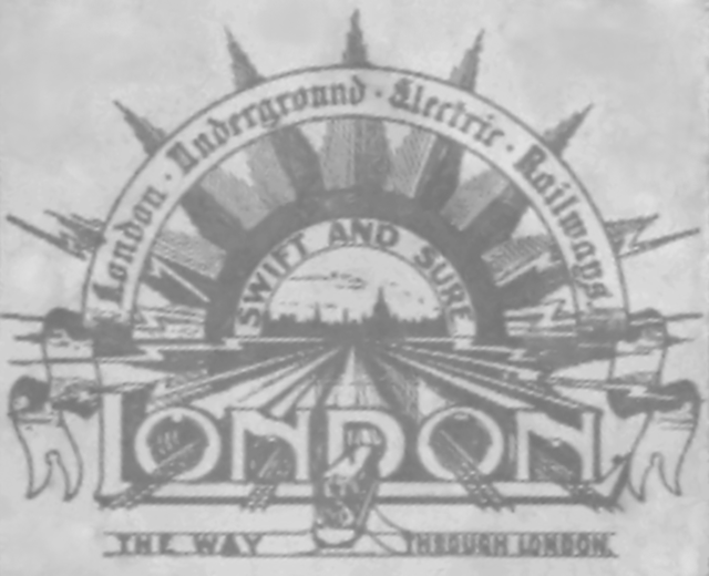 Ornamental graphic from front cover of pocket map of London Underground Electric Railways, circa 1908